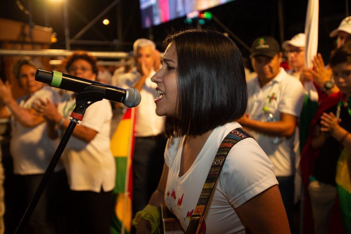 Carolina Bessolo performing "La Resistencia"